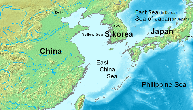 fixed about east sea/sea of japan naming dispute